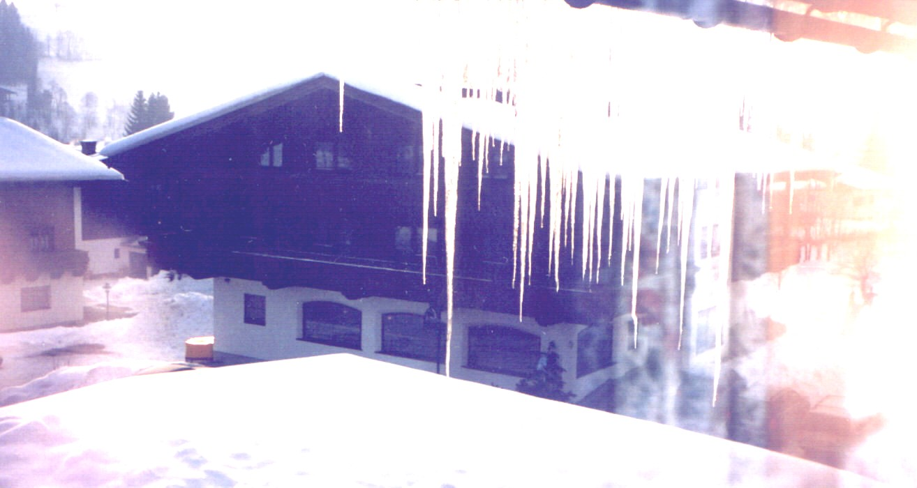 Tradicional austrian house in Reith bei Kitzbühel, Tirol, Austria